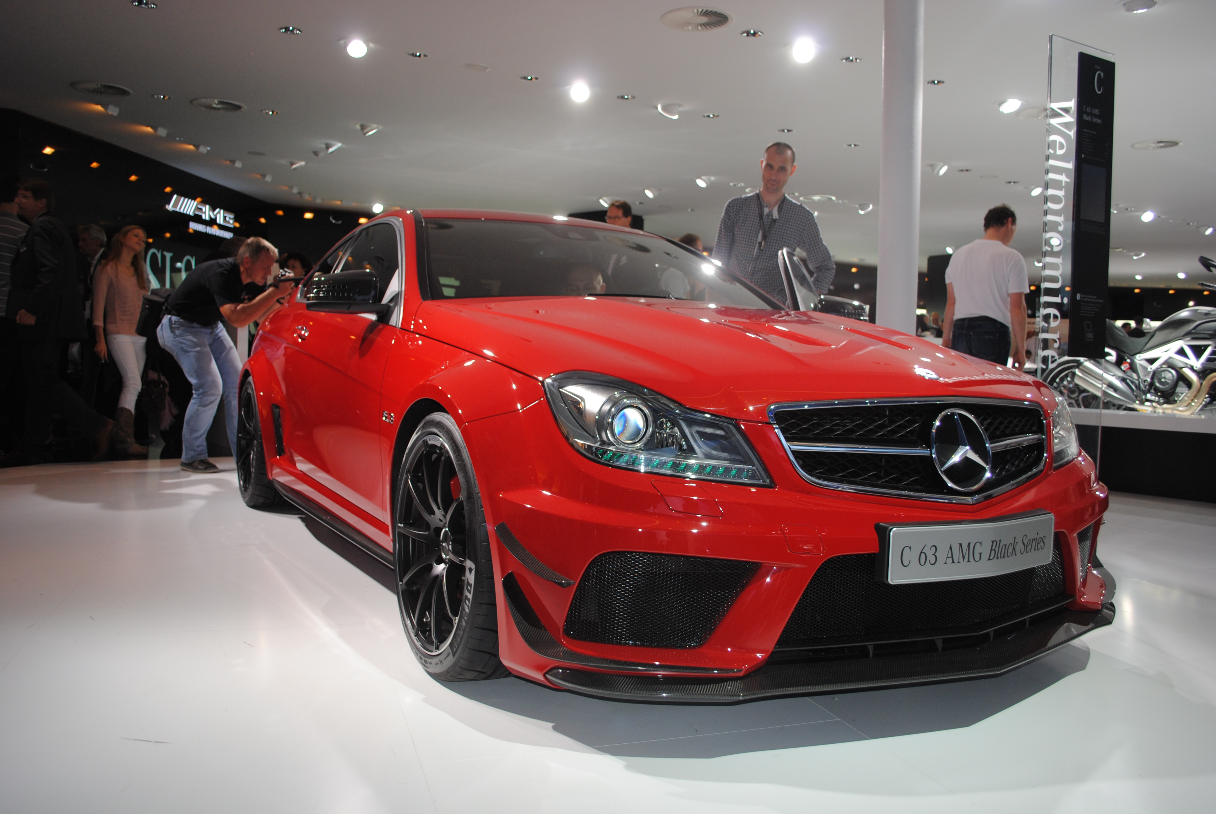 More photos and info